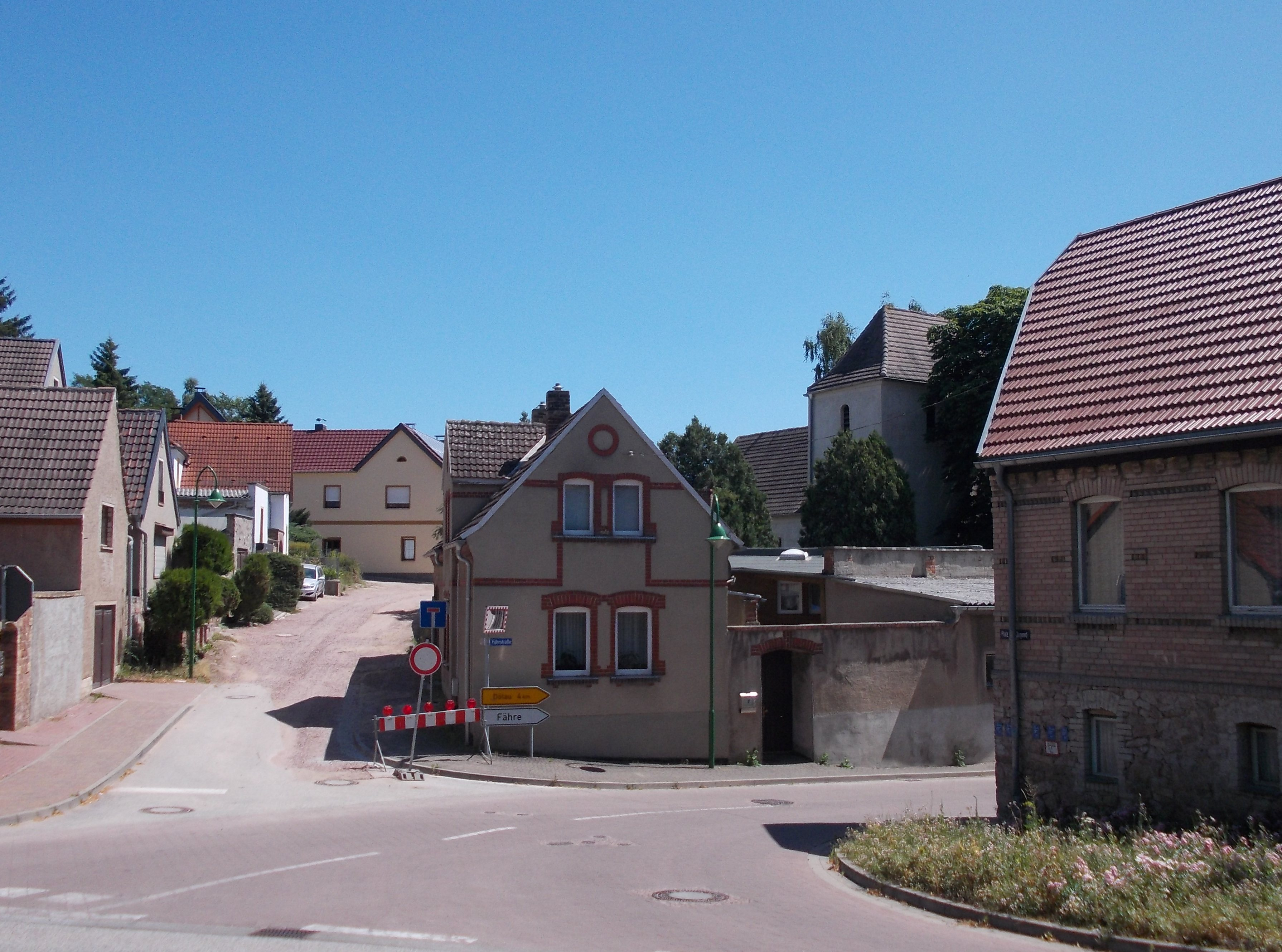 The centre of the village of Brachwitz (Wettin-Löbejün, district: Saalekreis, Saxony-Anhalt)